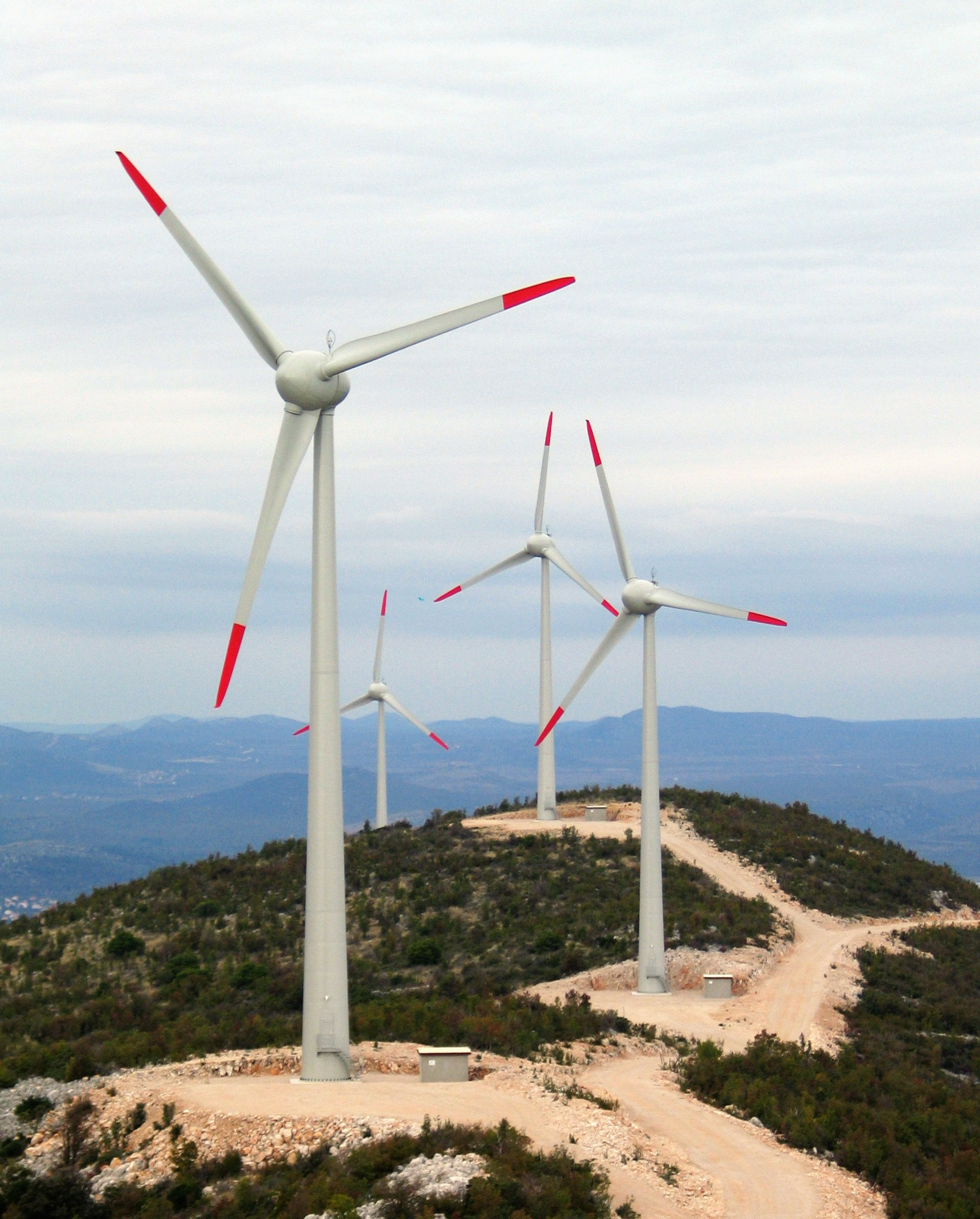 "Vjetroelektrana Trtar-Krtolin" wind farm near Šibenik, Croatia